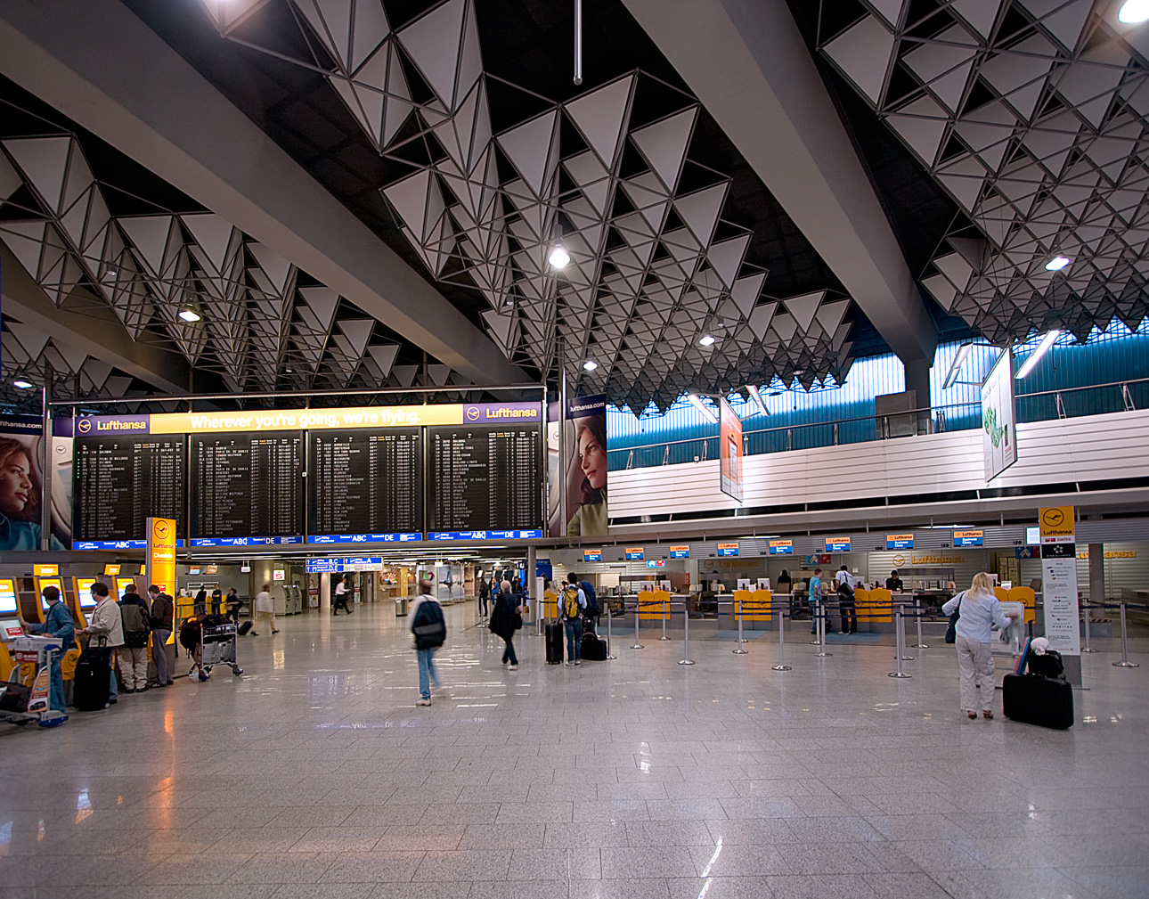 Frankfurt am Main Airport, Terminal 1, Level 2, Consourse A/Z, Check-In (Lufthansa/Star Alliance in Hesse, Germany.